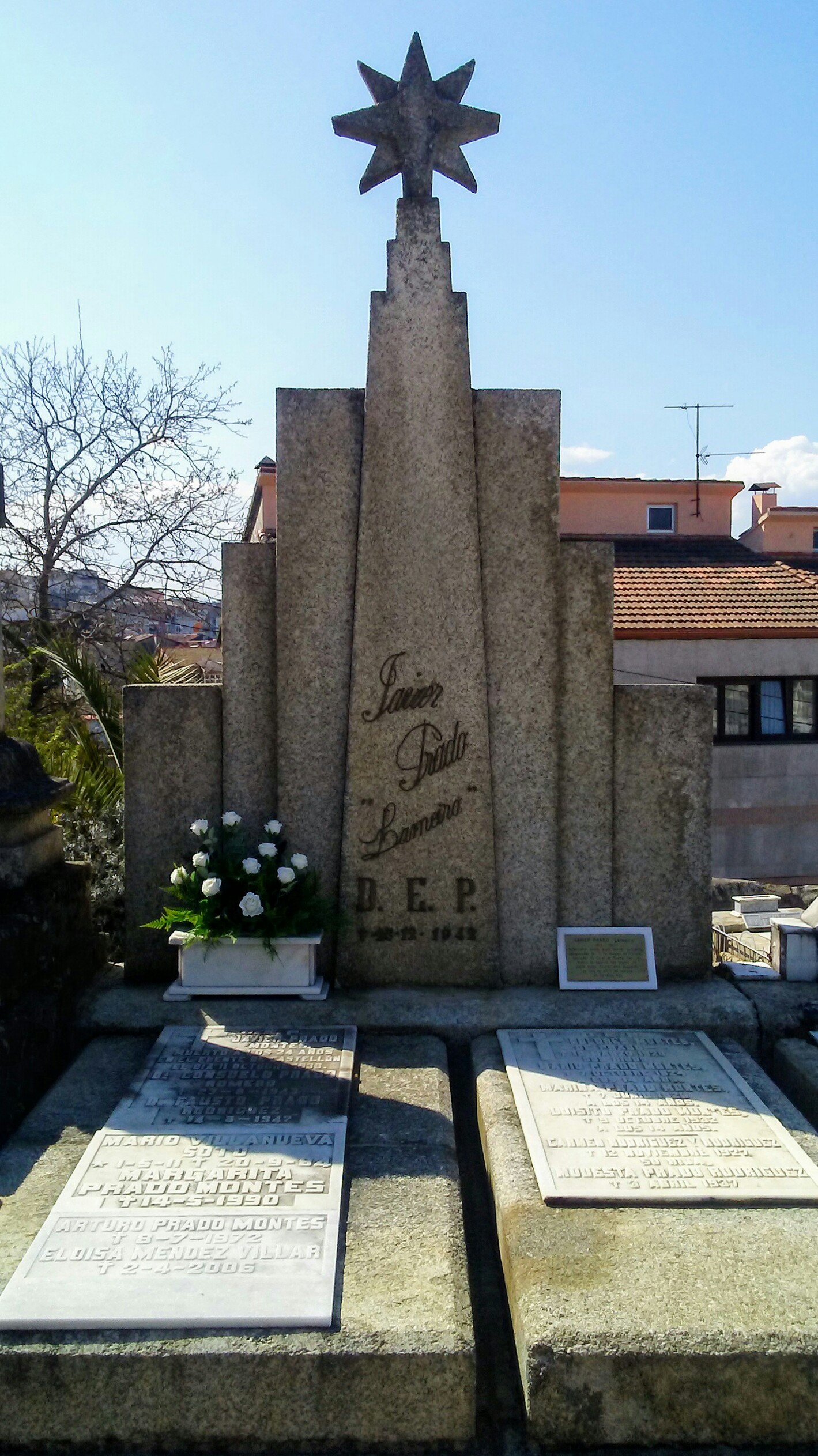 Tomb of Javier Prado Lameiro